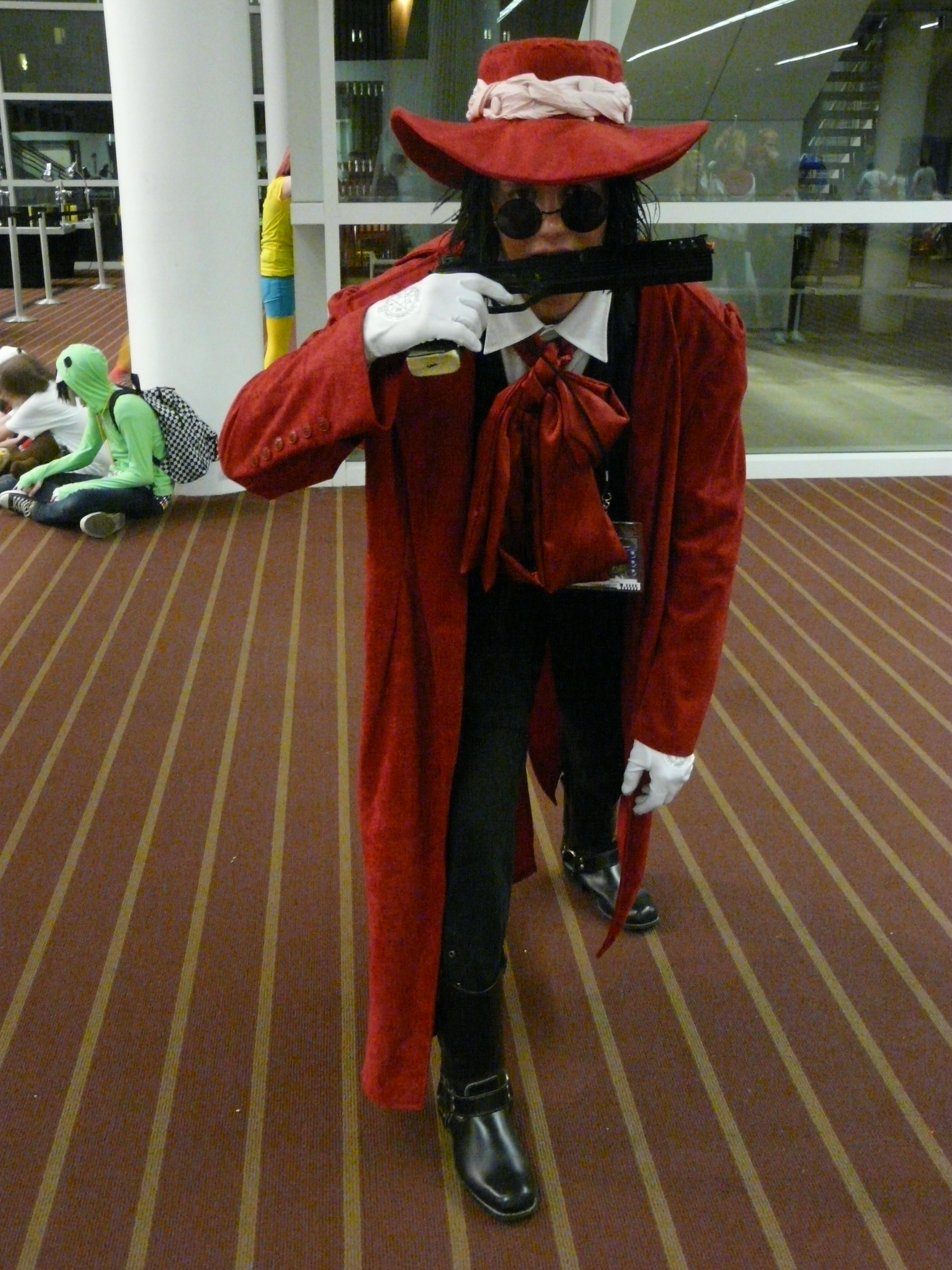 Tekkoshocon at David L. Lawrence Convention Center (2010)